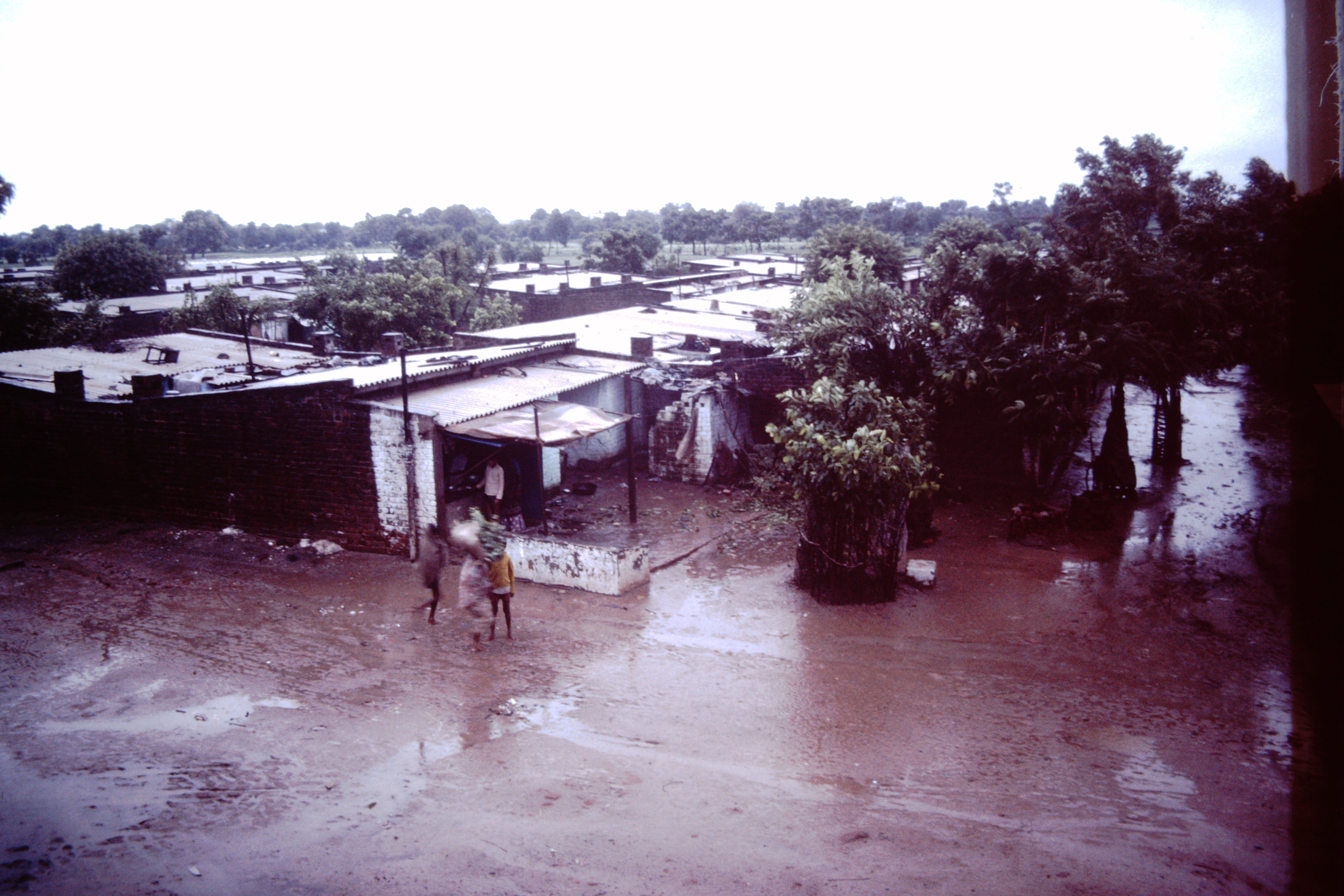 Slum in the rain, Ahmedabad, India